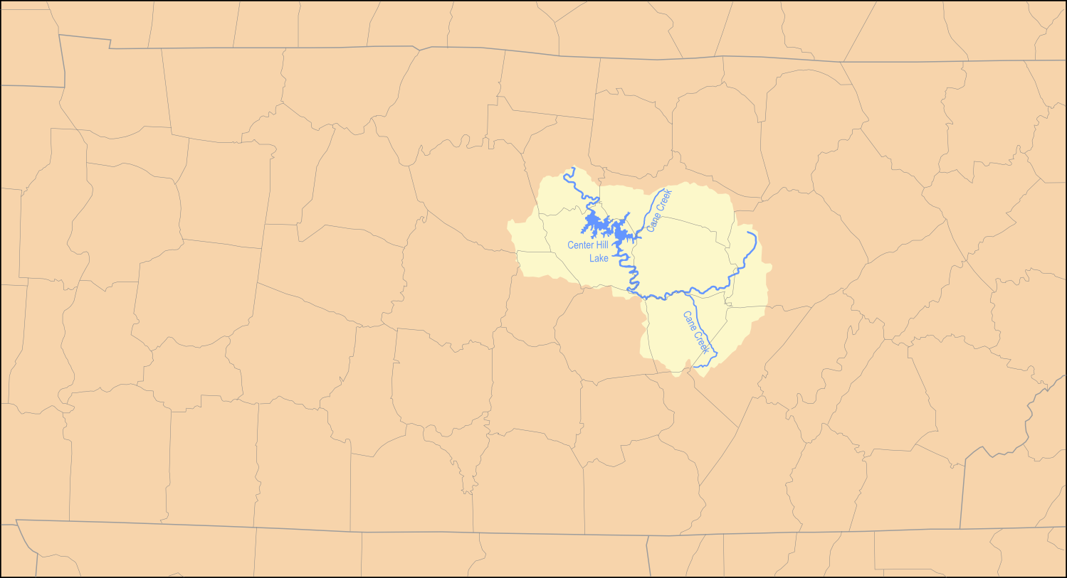 Map of Caney Fork Watershed (traced over watershed map from TDEC)